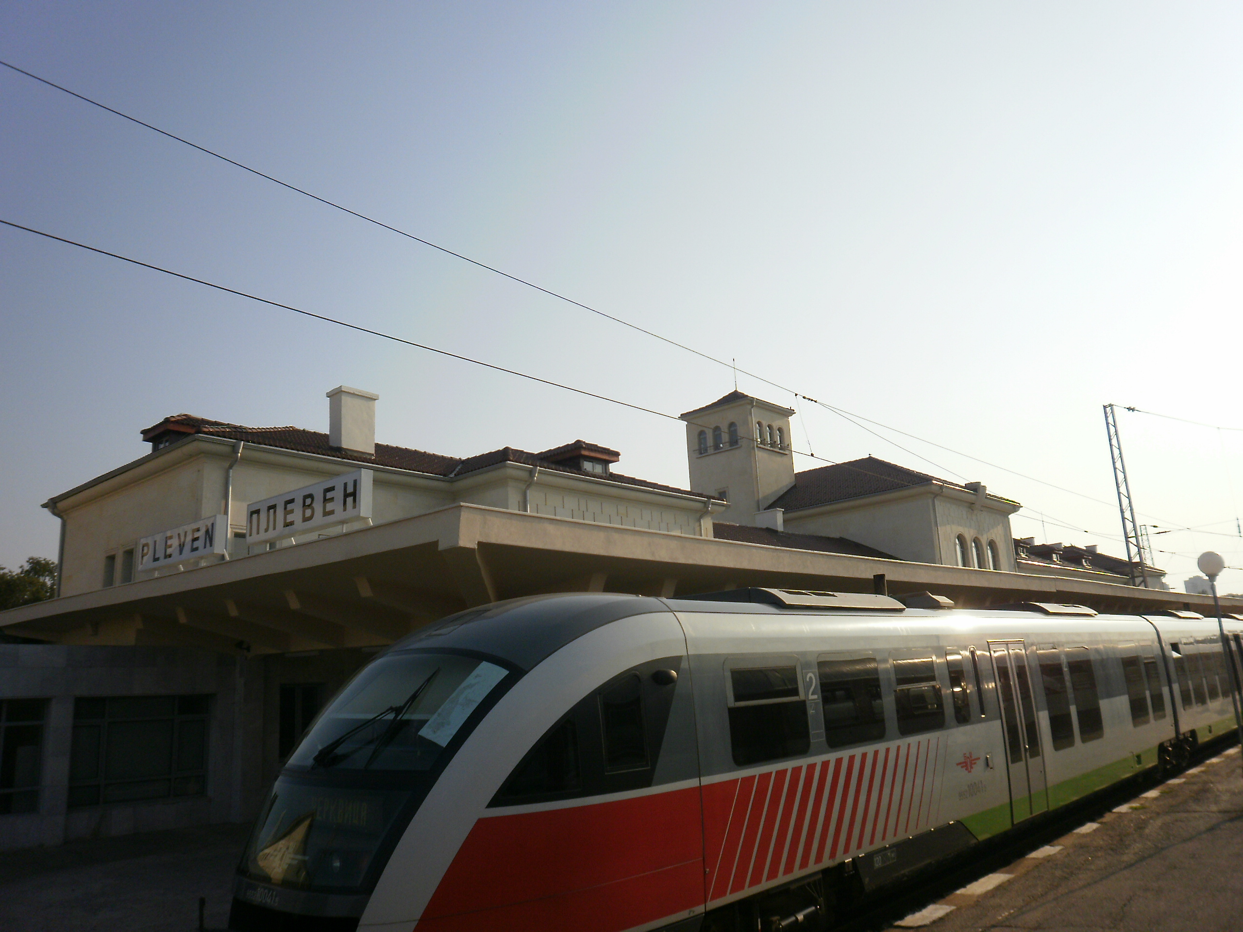 Pleven Railway Station, Bulgaria.